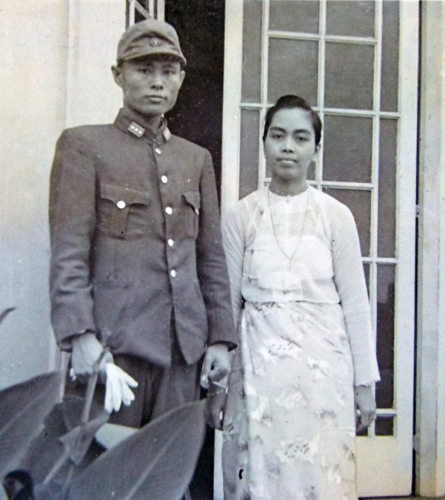 Colonel Aung San and Daw Khin Kyi after their marriage in 1942.